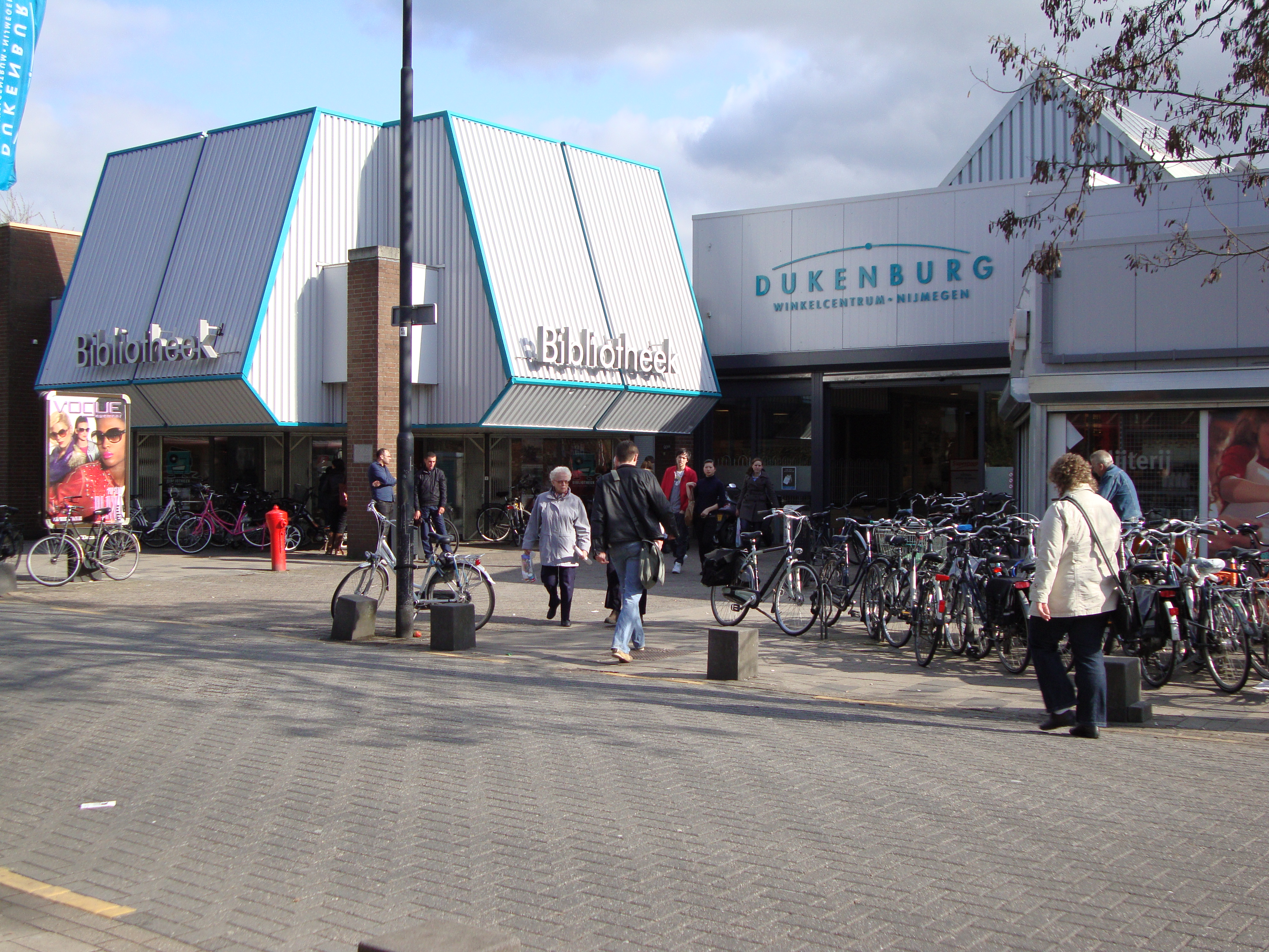 Nijmegen Dukenburg, Zwanenveld library and side-entrance Winkelcentrum Dukenburg (shopping mall)